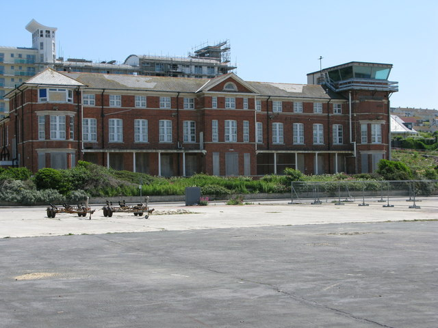 The old administration building, RNAS Portland This building housed various departments; ATC, Met office, Air Ops Room, Captains Office etc when the air station was operational